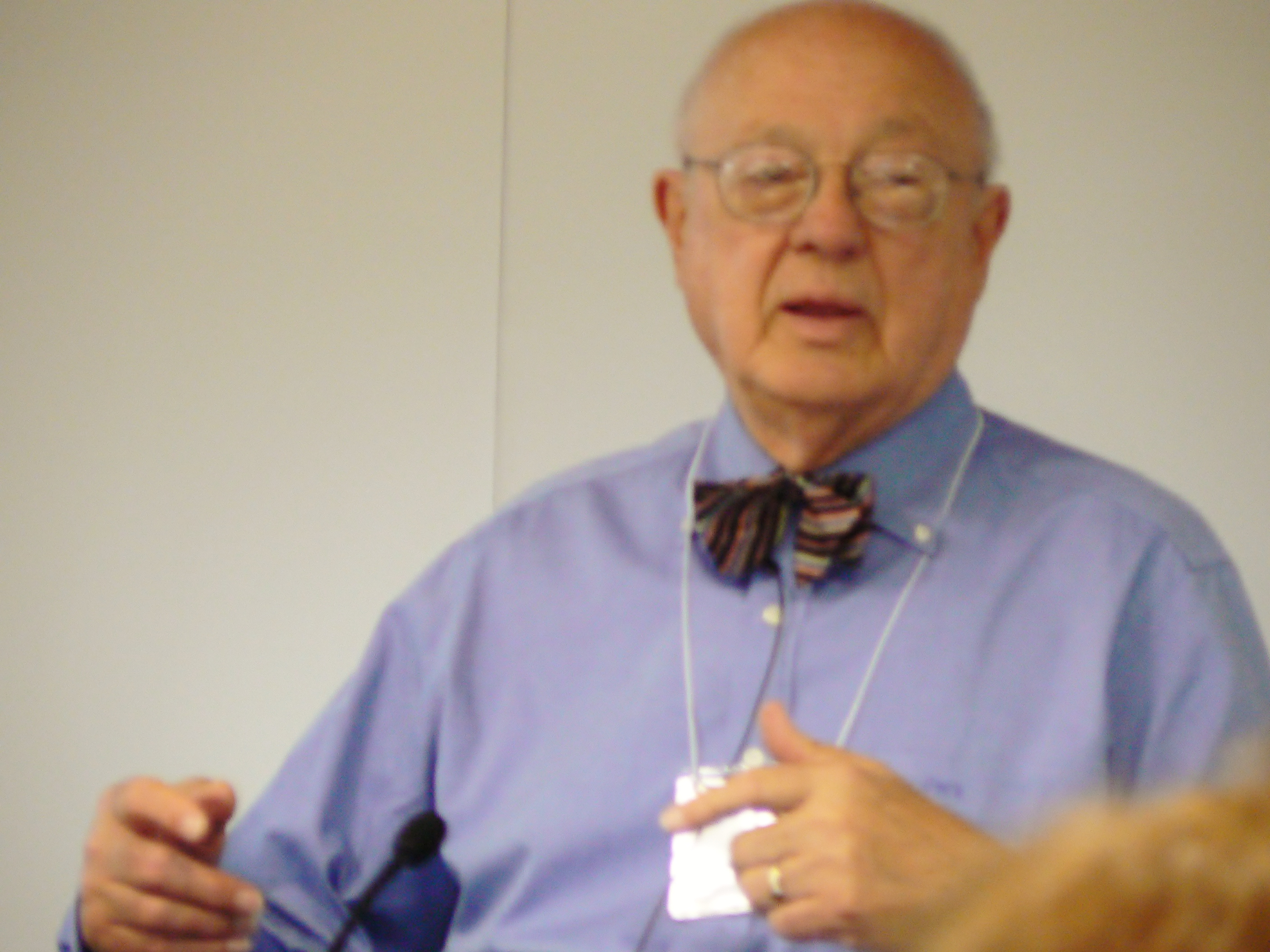 This photo was taken during a lecture given by Charles for the IDMS User Association at their IUA Workshop 2006. Charles talked about his personal background, with a focus on the development of what is now called IDMS (Integrated Database Management System), marketed by CA technologies.